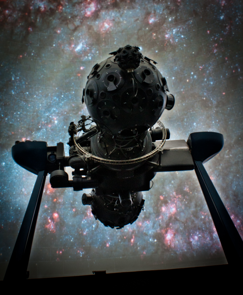 Planetarium projector. Kiev Planetarium. Ukraine.